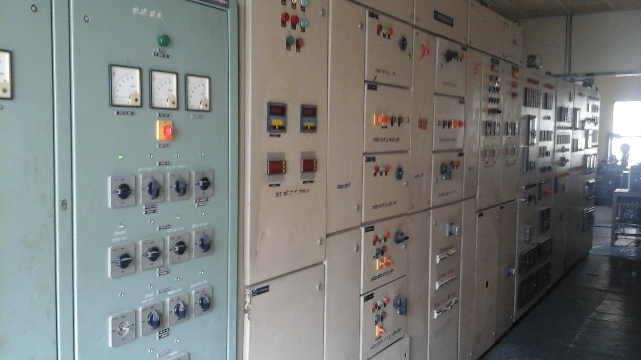 wan hydro project panel control room akola